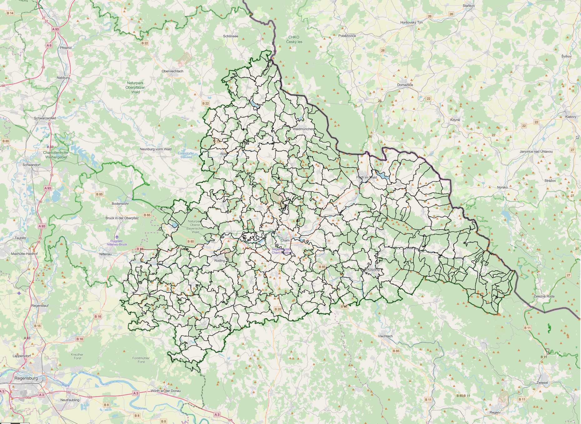 Hunting grounds in the district of Cham, Bavaria, Germany, 2019